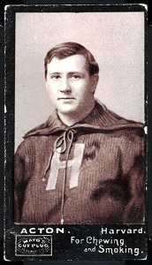 Robert Acton - 1894 Mayo Cut Plug #1. Left guard at Harvard.